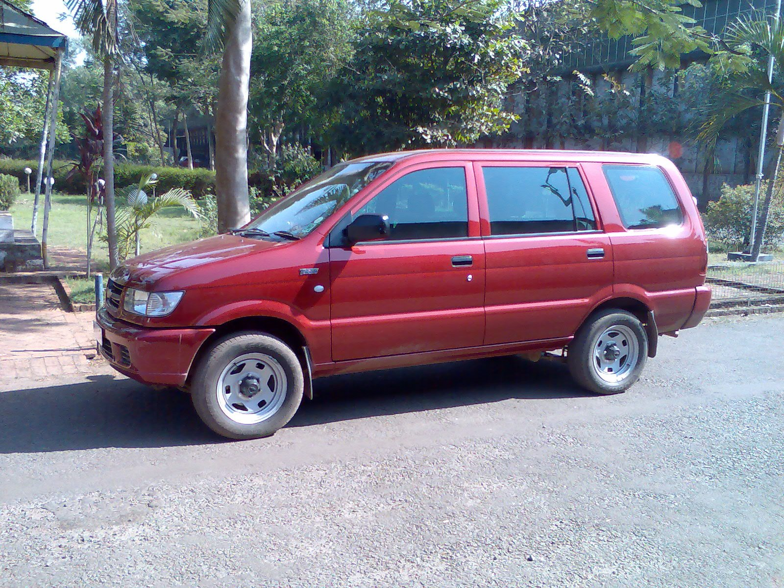 2004 Chevrolet Tavera, 1.6 Elite, Indian edition